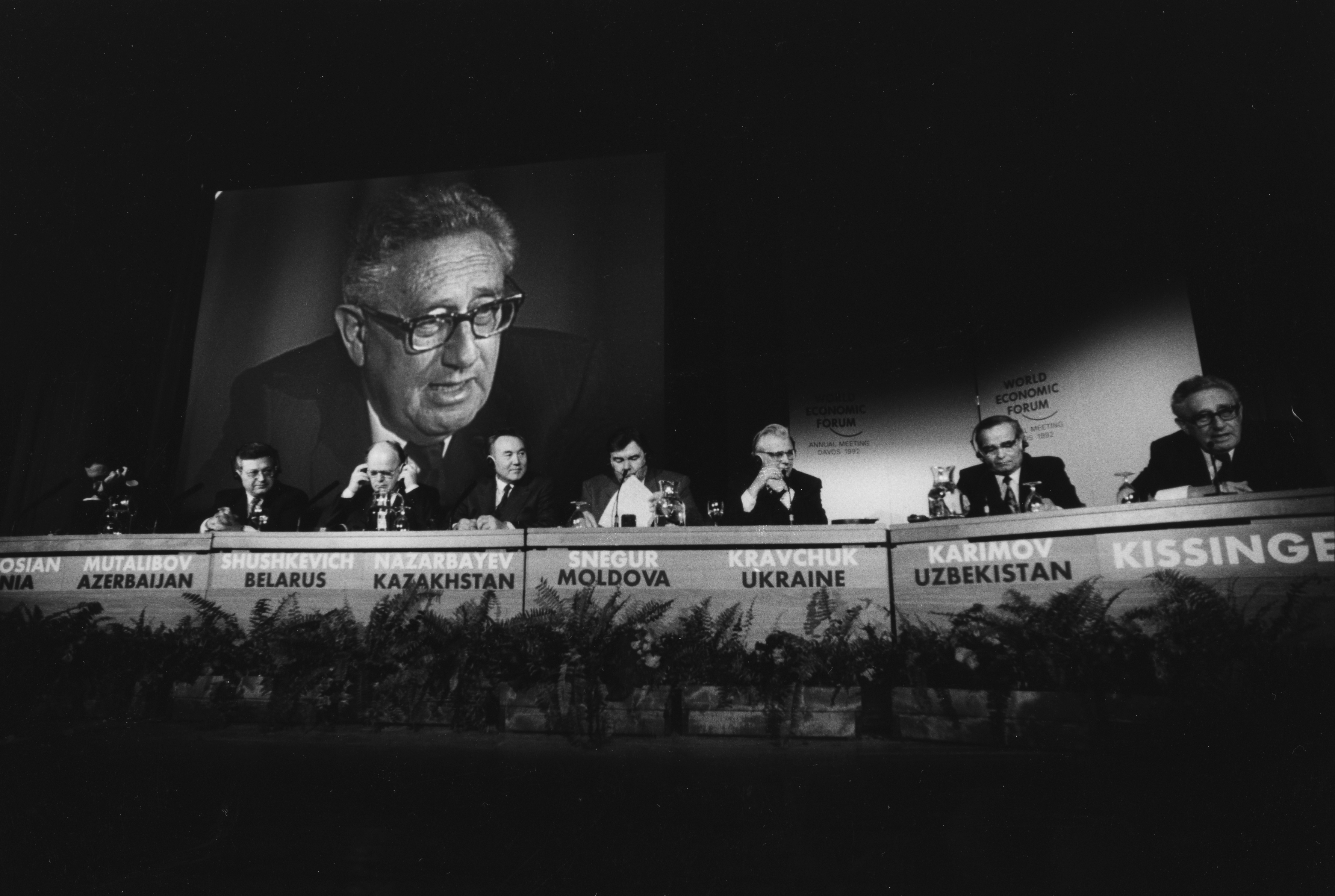 Henry Kissinger, former US Secretary of State chairing a panel session on “The New Partners” with Presidents (left to right) Ayaz Mutalibov of Azerbaijan; Stanislav Shushkevich, Chairman of the Supreme Soviet of Belarus; Nursultan Nazarbayev of Kazakhstan; Mircea Snegur of Moldova; Leonid Kravchuk of Ukraine; Islam Karimov of Uzbekistan at the Annual Meeting of the World Economic Forum in Davos in 1992.